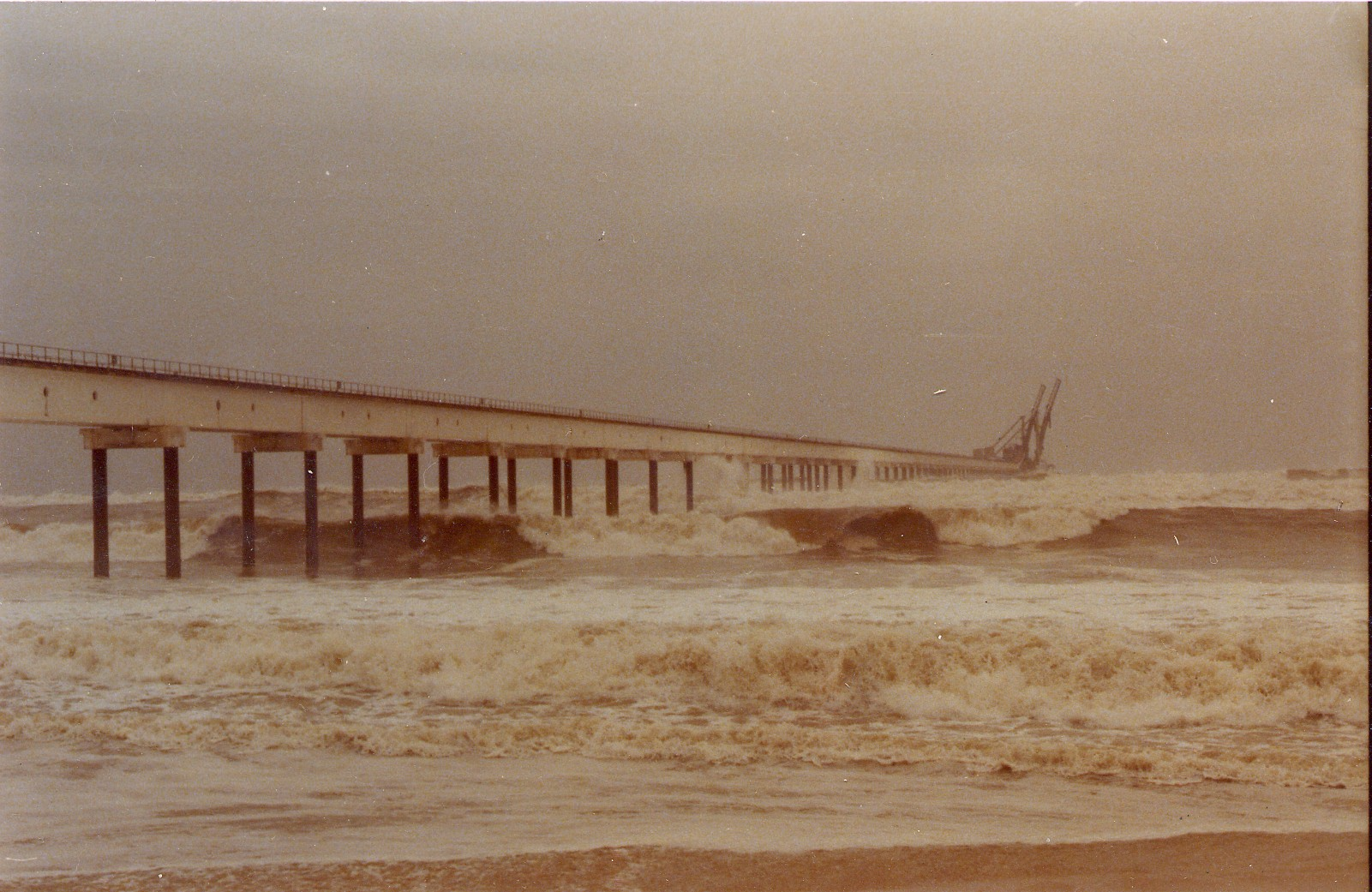 Wharf